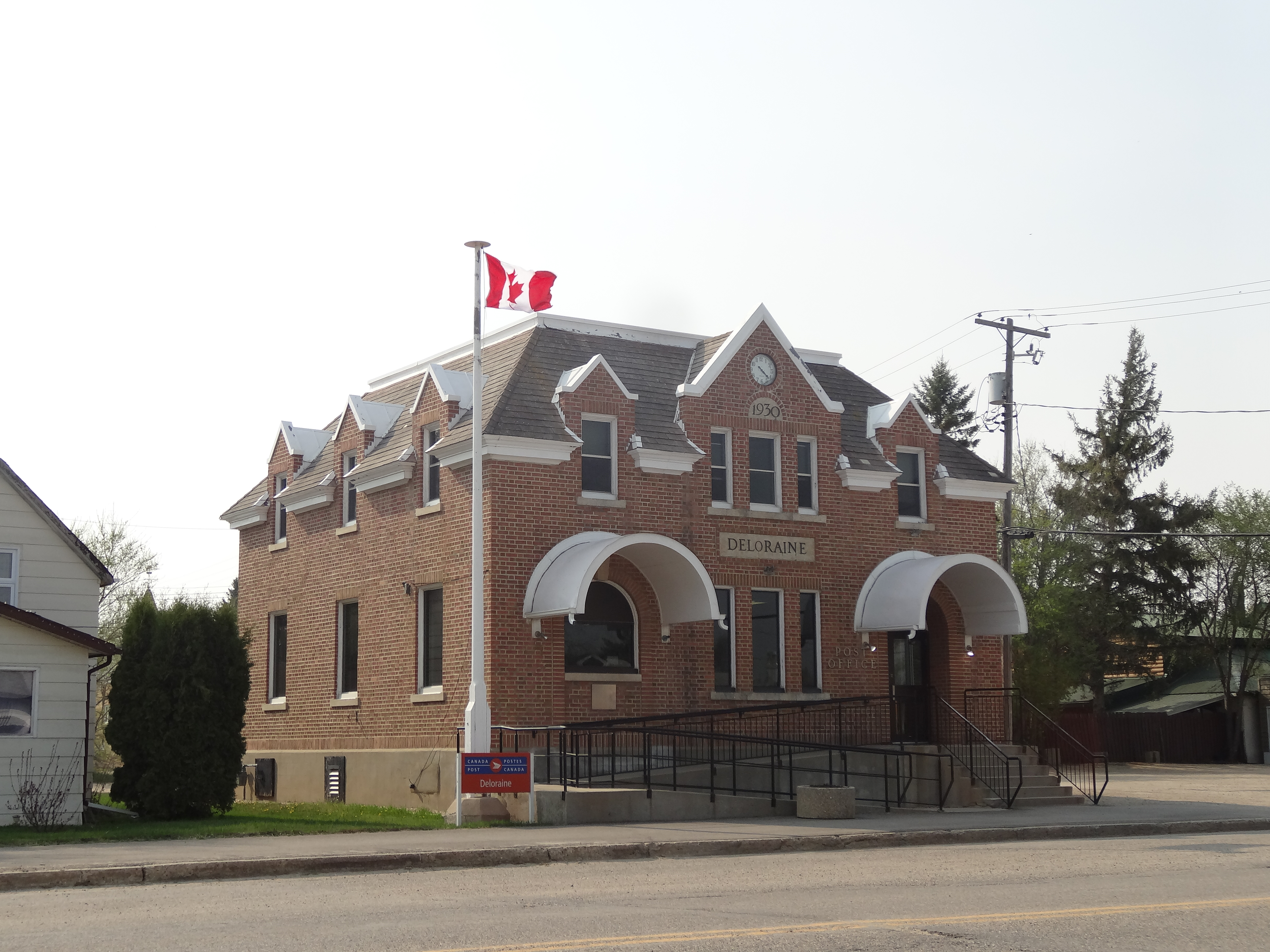 The post office in Deloraine, Manitoba. Constructed in 1930